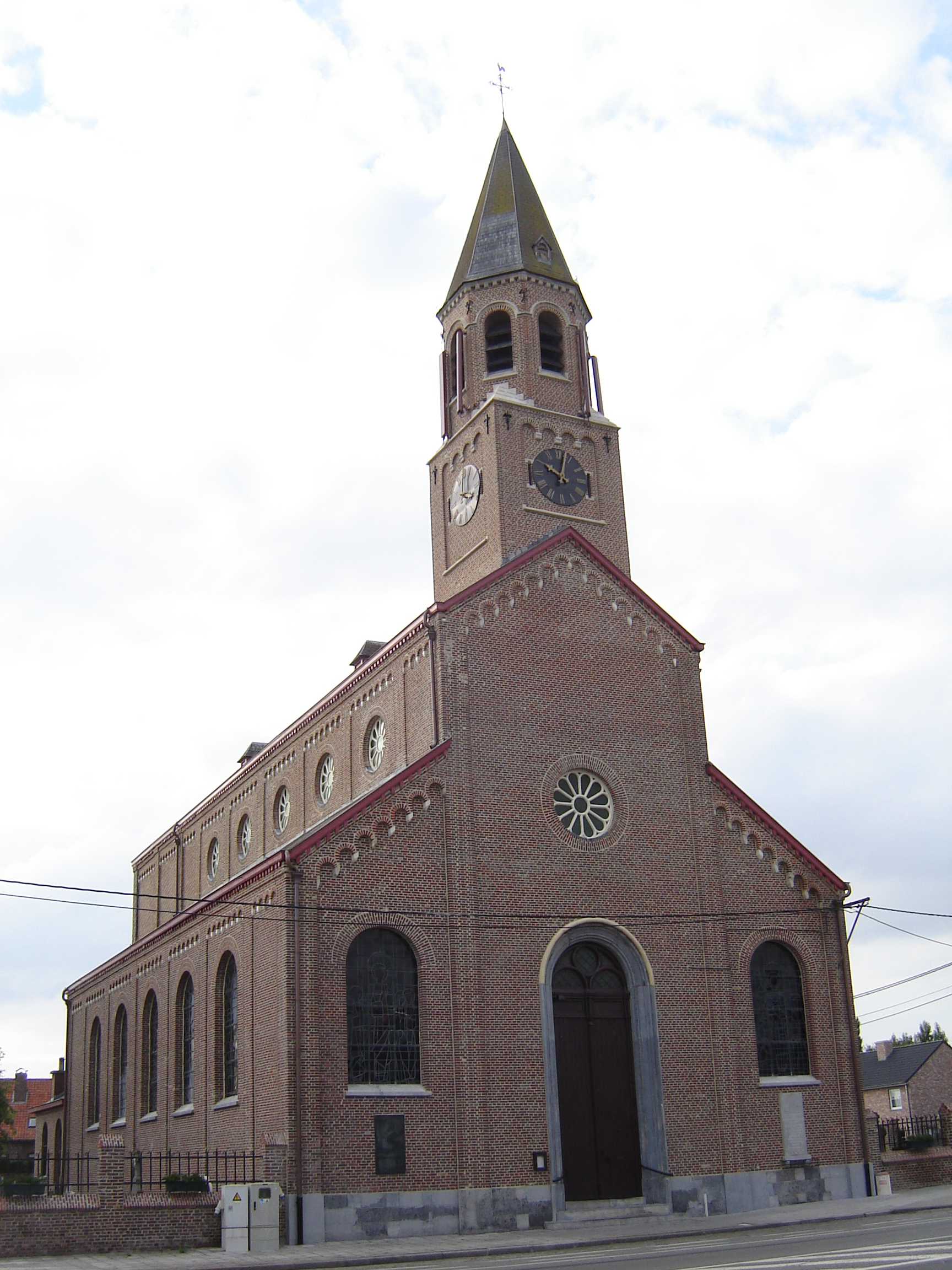 Church of Saint Martin in Sint-Martens-Leerne. Sint-Martens-Leerne, Deinze, East Flanders, Belgium